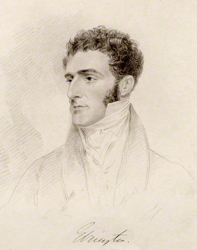 Hugh Fortescue, 2nd Earl Fortescue. By Frederick Christian Lewis Sr, after Joseph Slater stipple engraving, 1826 or after 12 in. x 9 in. (304 mm x 228 mm) plate size; 22 1/8 in. x 15 1/8 in. (562 mm x 384 mm) paper size Given by Grillion's Club, 1903 Reference Collection NPG D20597